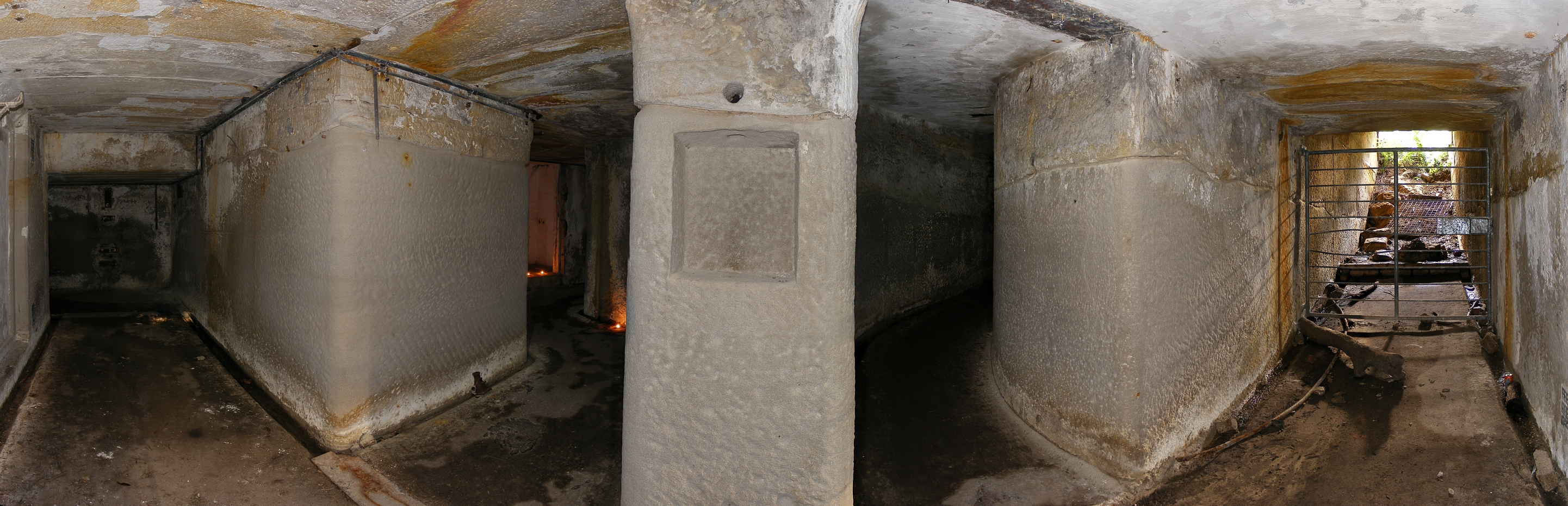 The Middle Head fortification tunnels in Sydney